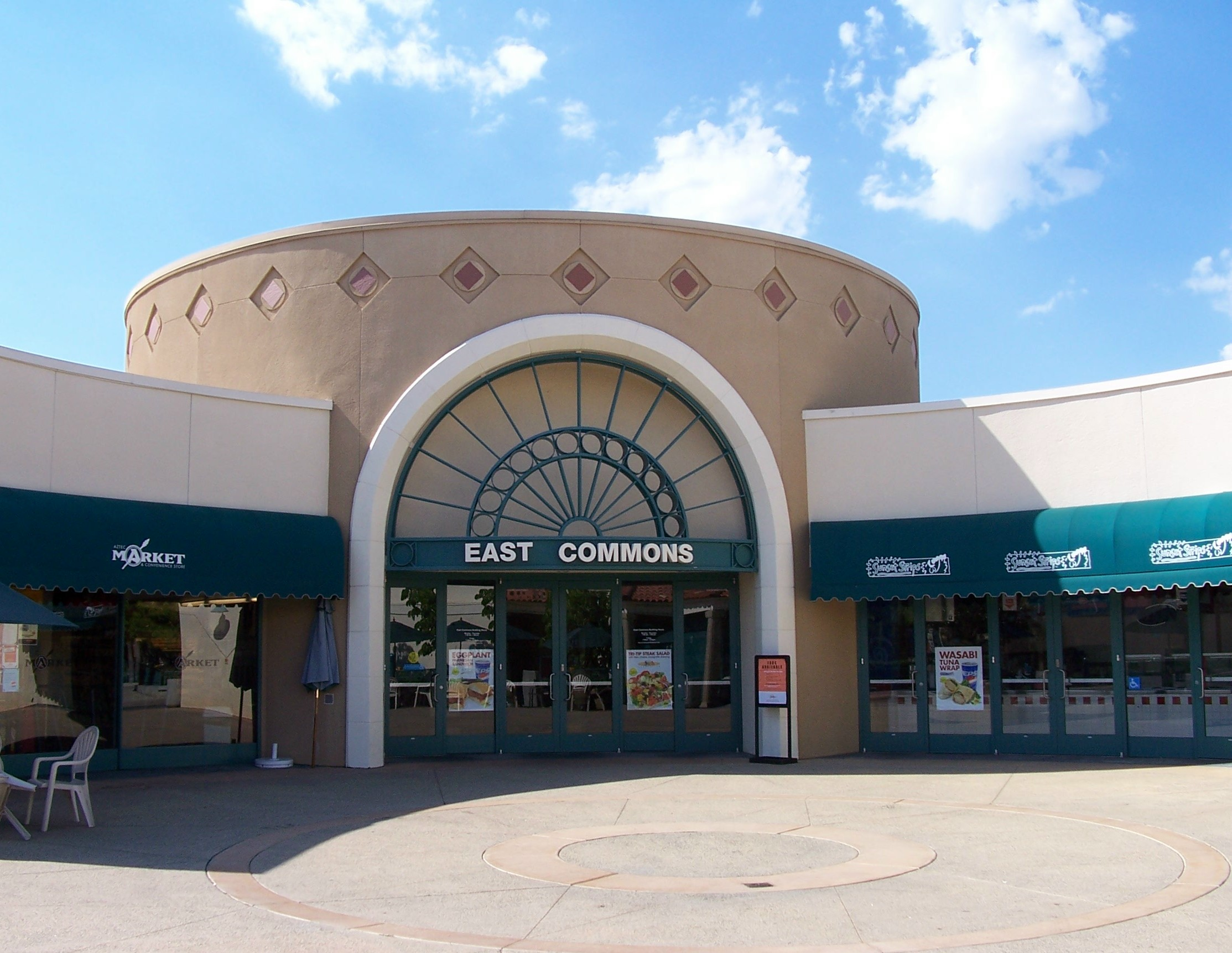 East Commons food court at San Diego State University